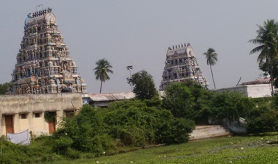 Keelaparasalur veeratesvarar temple1 கீழப்பரசலூர் வீரட்டேஸ்வரர் கோயில்